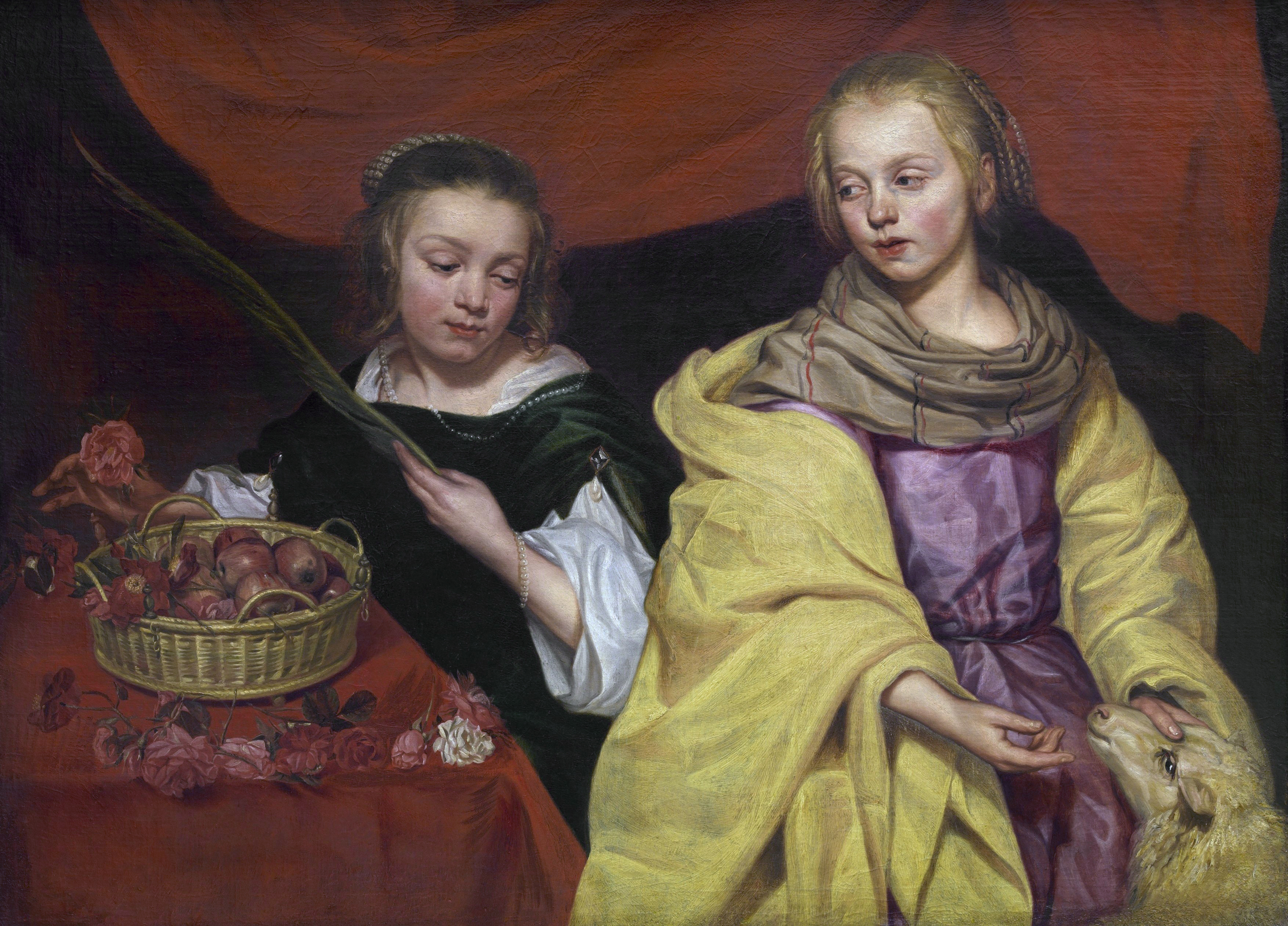 Two girls as Saint Agnes and Saint Dorothea oil on canvas 89.7 x 122 cm 1643 - 1659